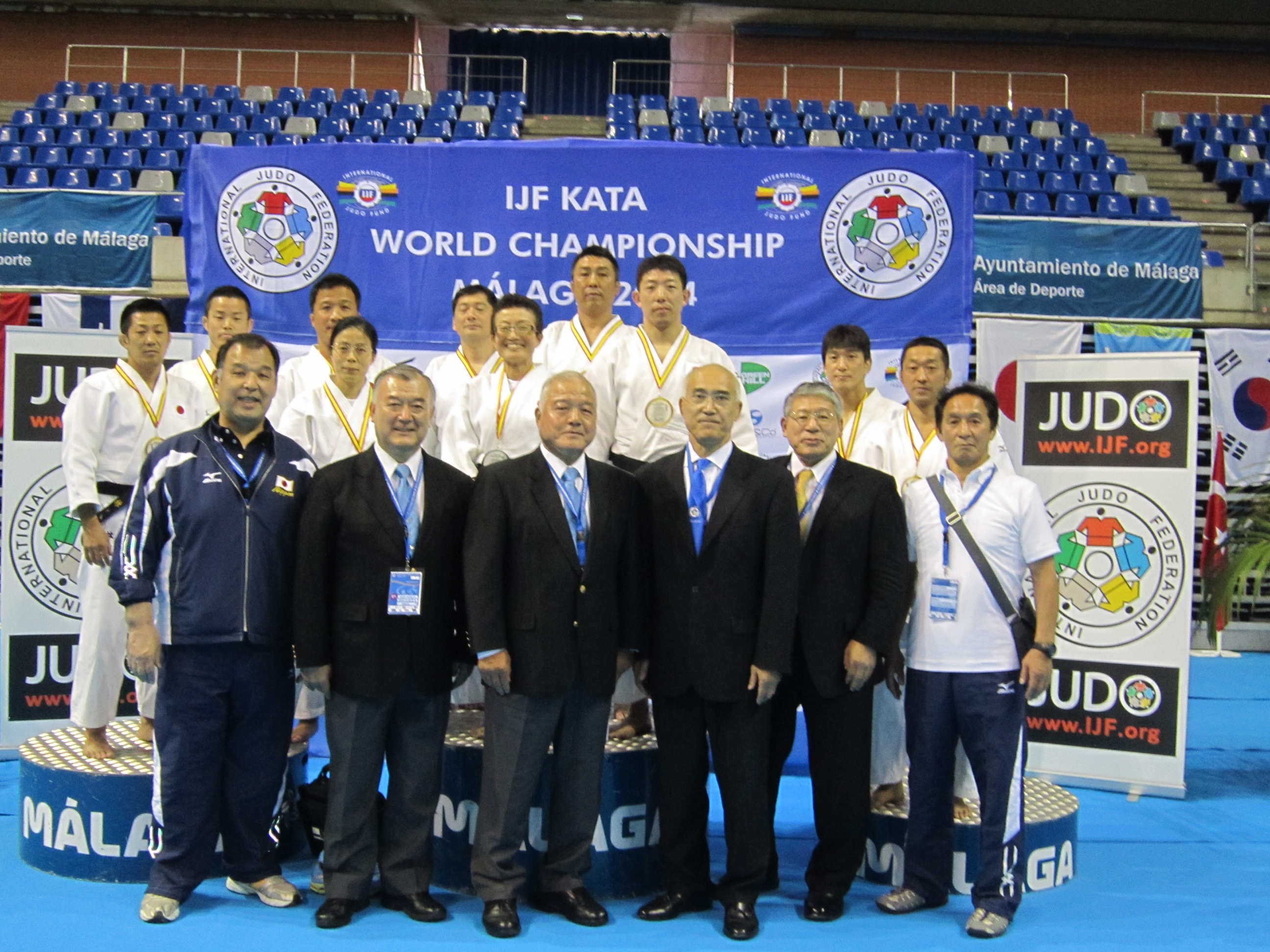 World KATA Champion team Japan 2014